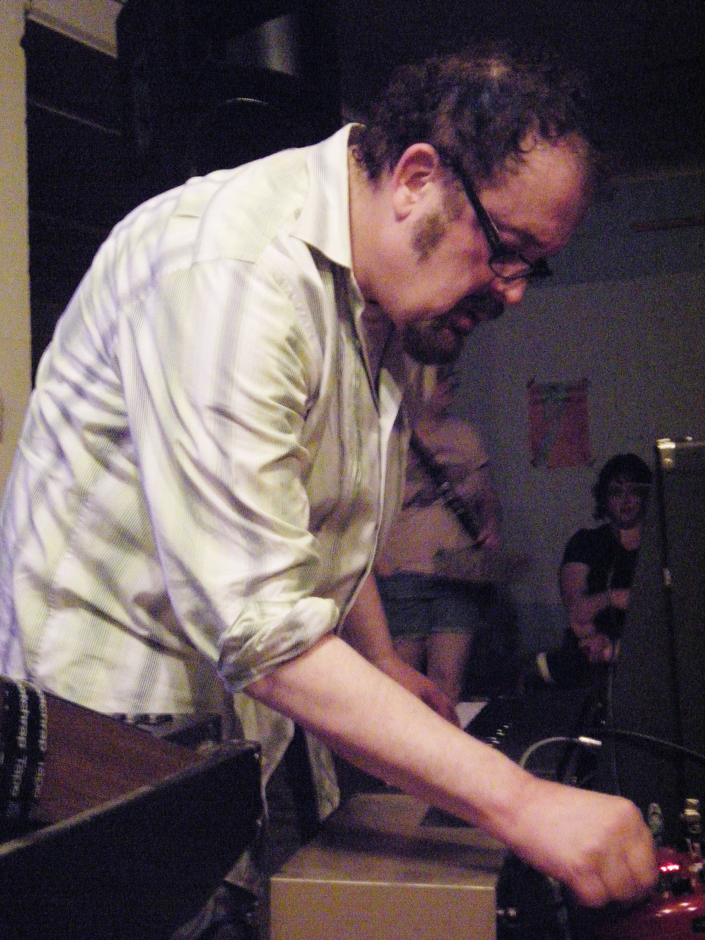 Steve Fisk performing with Peter Randlette, musician and head of electronic media at The Evergreen State College, and Greg Gilmore (not shown) at the 14th Olympia Experimental Music Festival, Olympia, Washington.